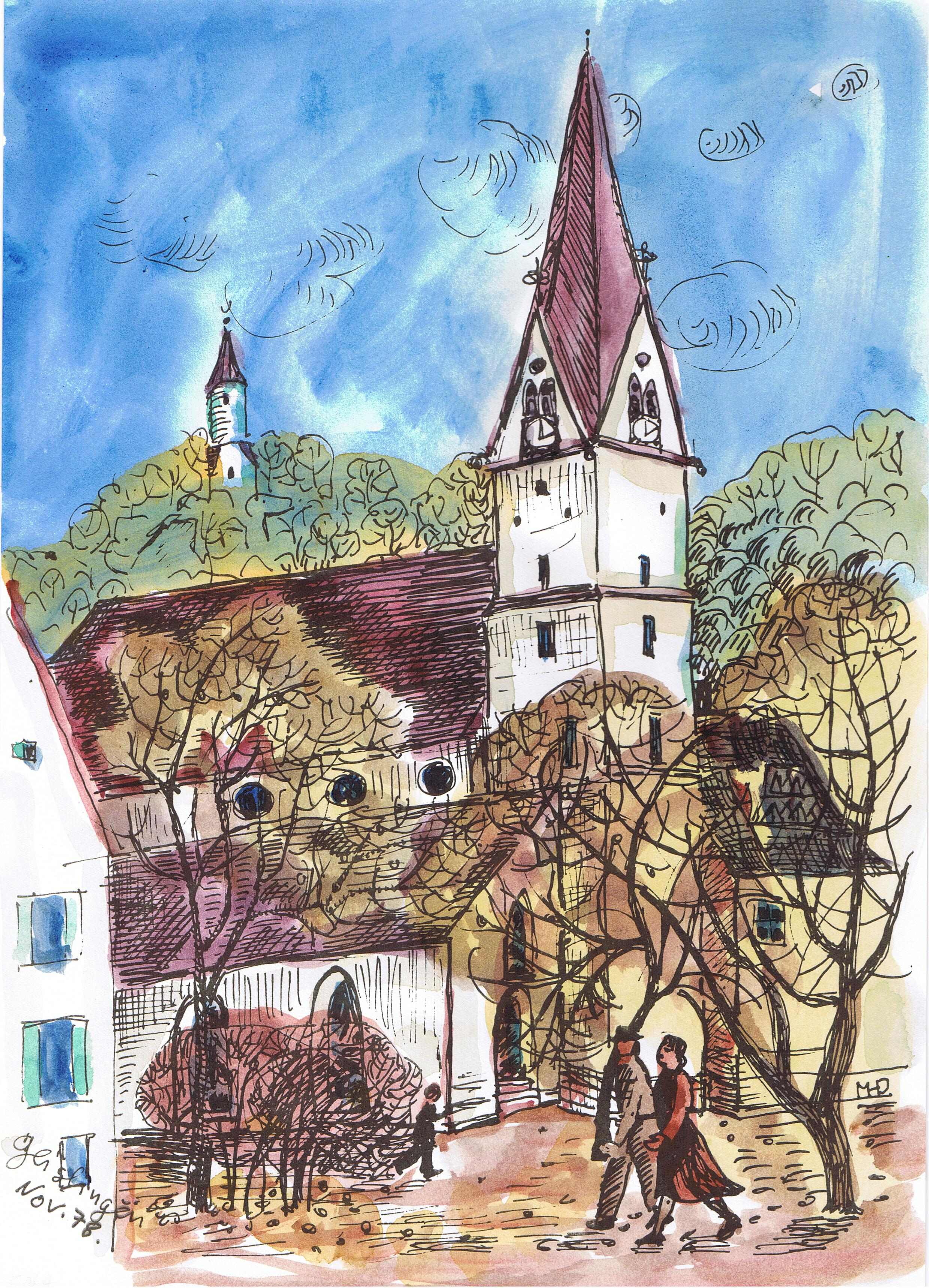 Geislingen an der Steige, church, water color